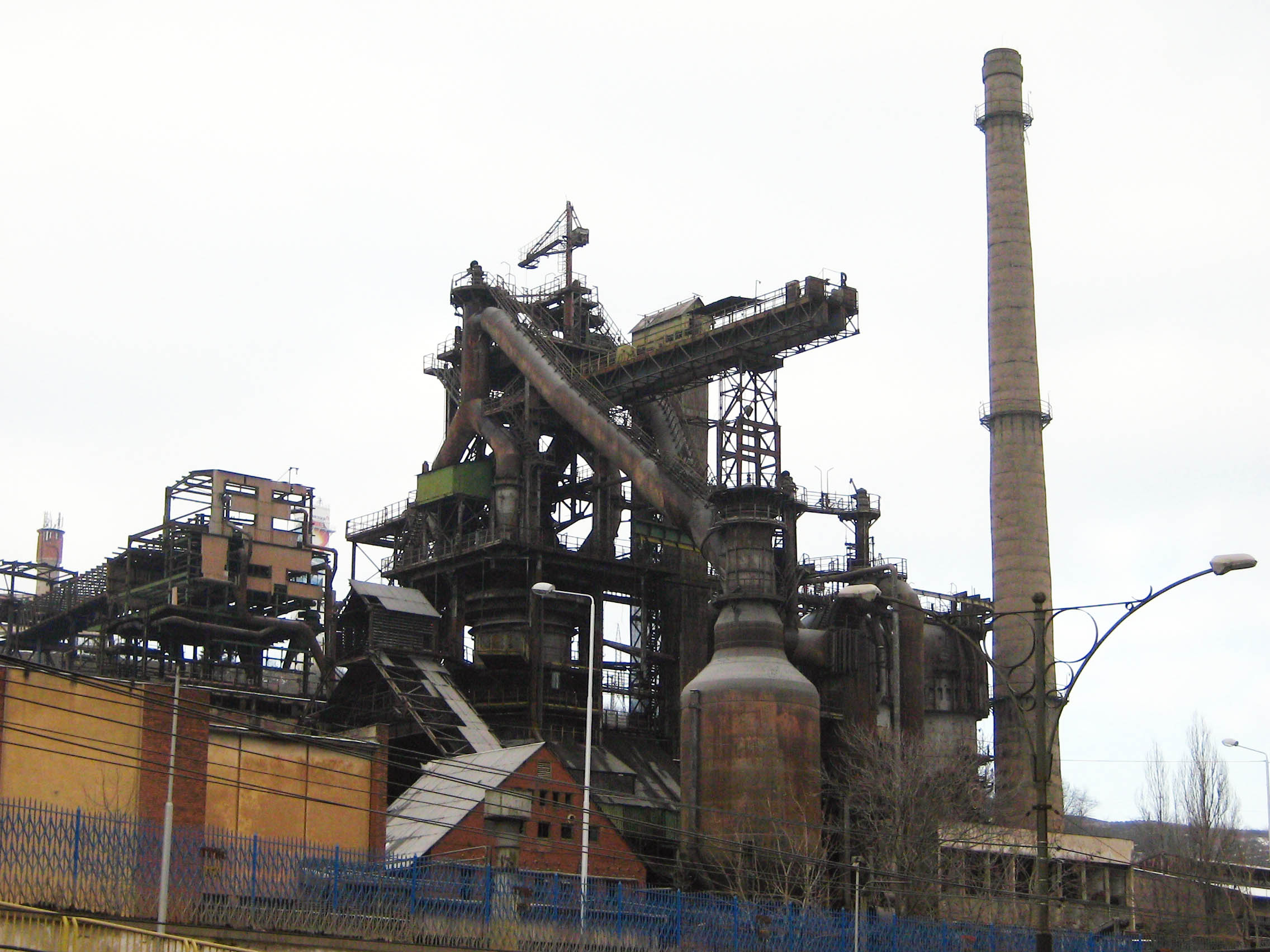 The last remaining blast furnace at Reşiţa, Romania. There where two soviet style blast furnaces sharing the same casthouse. The furnaces had 850 cubic meter capacity. They were built between 1958 and 1962 and decomissioned in 1991. The number 1 blast furnace was demolished between 2001-2002 and the number 2 blast furnace was preserved and declared as a historical monument in 2003.